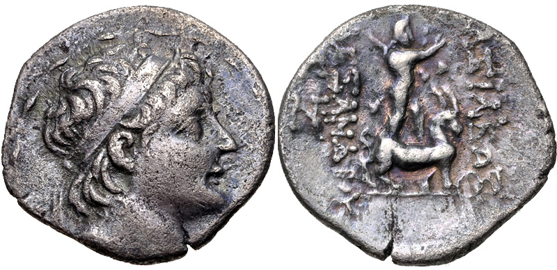 from the website: 402, Lot: 306. Estimate $100. Sold for $140. This amount does not include the buyer’s fee. SELEUKID EMPIRE. Alexander II Zabinas. 128-122 BC. AR Drachm (19mm, 3.75 g, 1h). Tarsos mint. Diademed head right / Sandan standing right, wearing a polos and with a bow and quiver over his shoulder, holding labrys in left hand and flower in right, on the back of horned lion-griffin right; two monograms to outer left. SC 2212.1b; HGC 9, 1153; CSE 486 (same dies). Good Fine, toned, hairline flan crack, porous. Very rare.